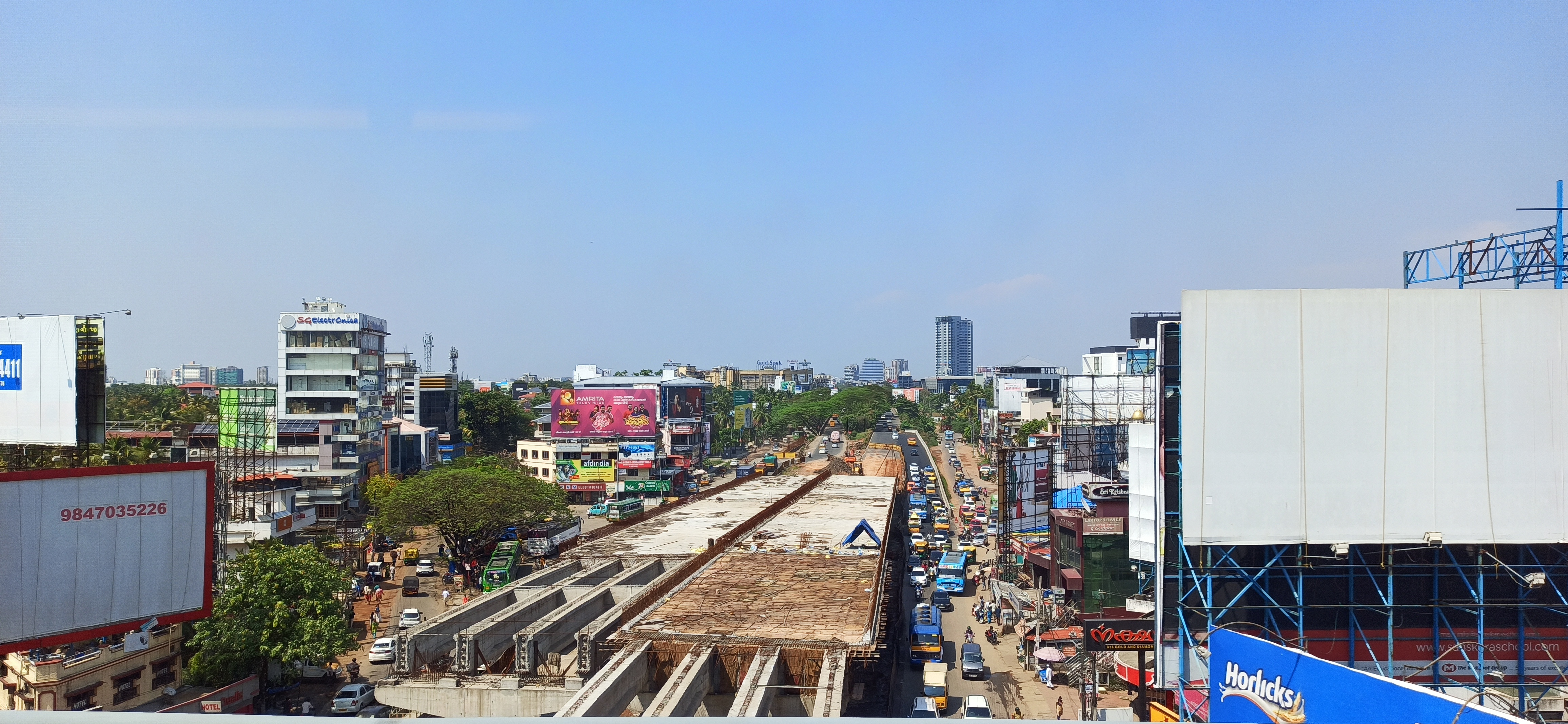 Vyttila is an intersection as well as the name of a region in the city of Kochi, in the state of Kerala, India